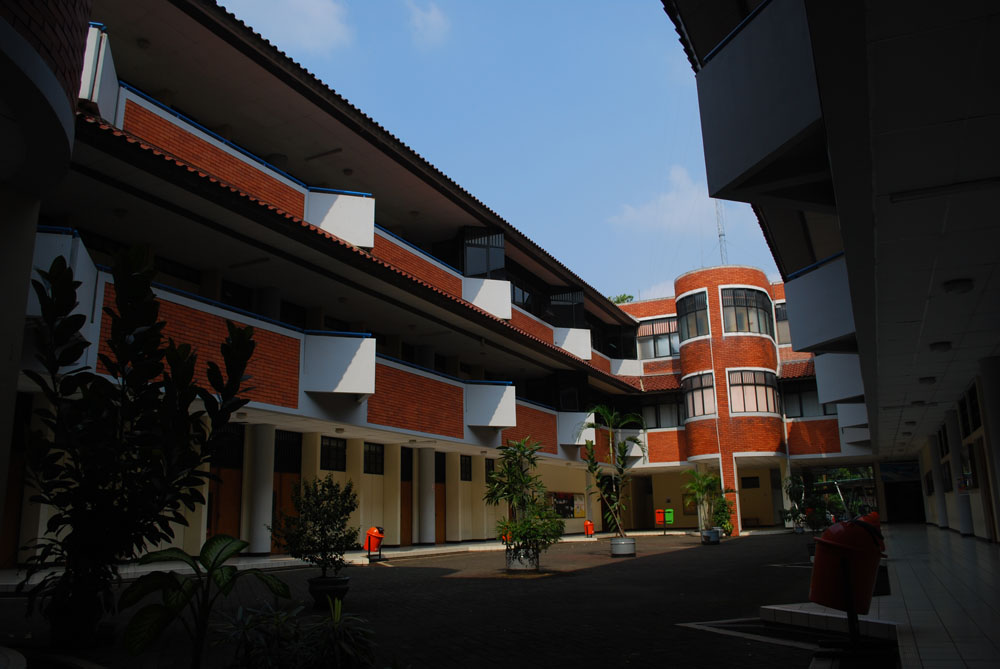 Faculity of Economics, University of Indonesia, Nathael Iskandar building.